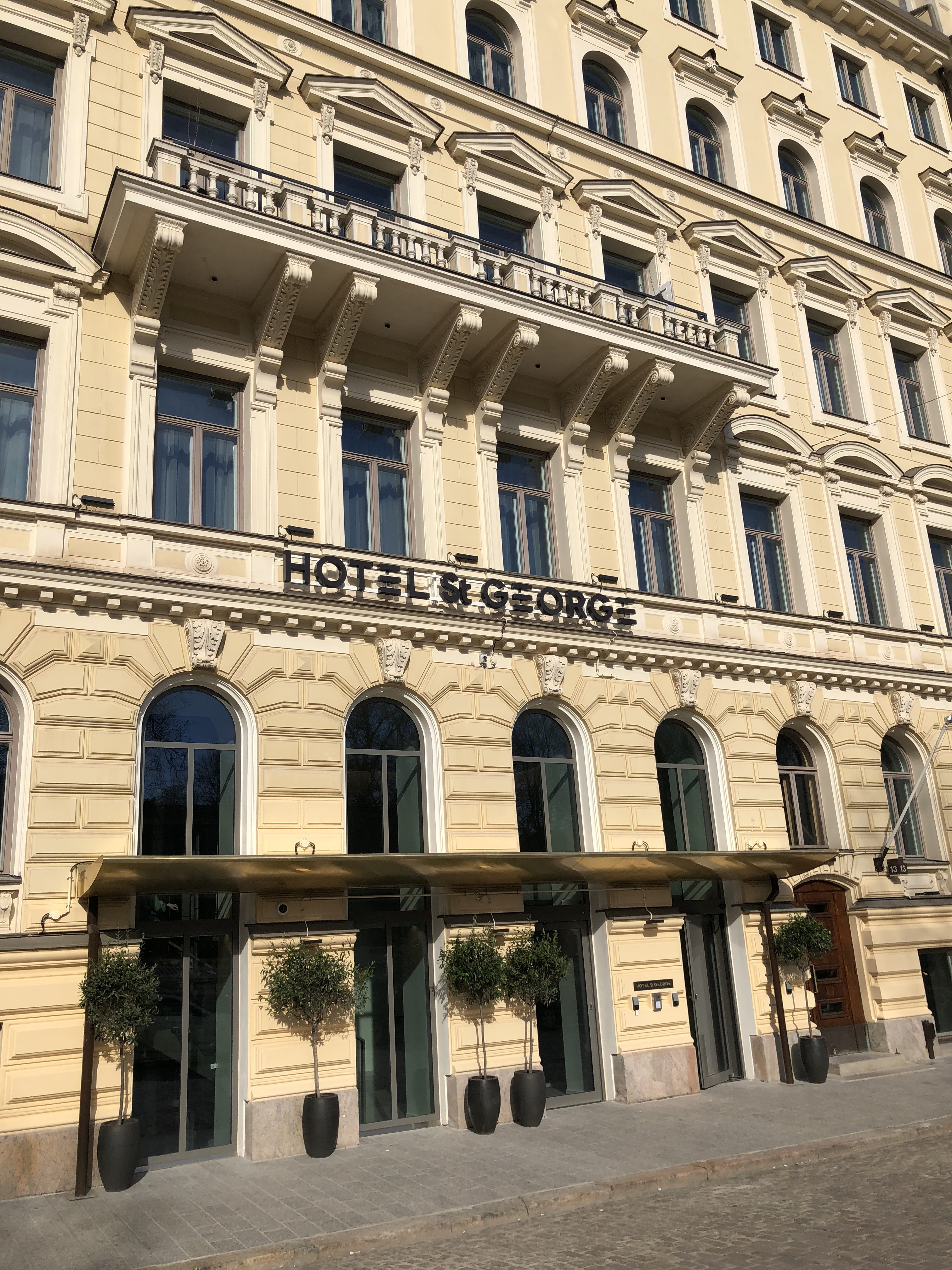 The entrance of Hotel St. George in Yrjönkatu 13, Helsinki, Finland in May 2018